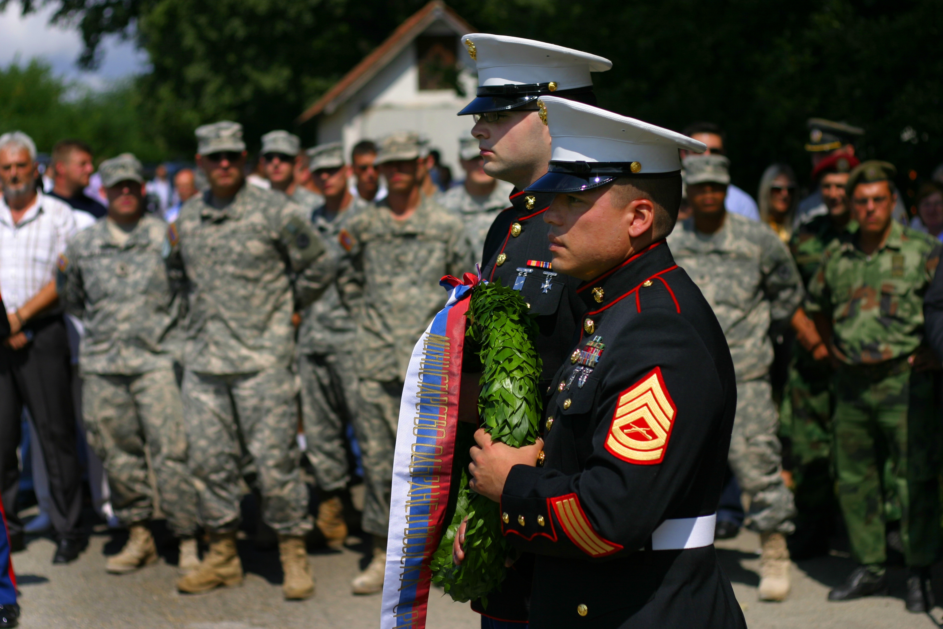 Marine Security Guards for the U.S. Embassy in Belgrade, Serbia Lance Aaron Johnston and Gunnery Sgt. Laureano Perez lay a wreath at the Halyard Mission memorial in Pranjanje, Serbia, Aug 15, 2009 during the 65th annivesary of the Halyard mission.